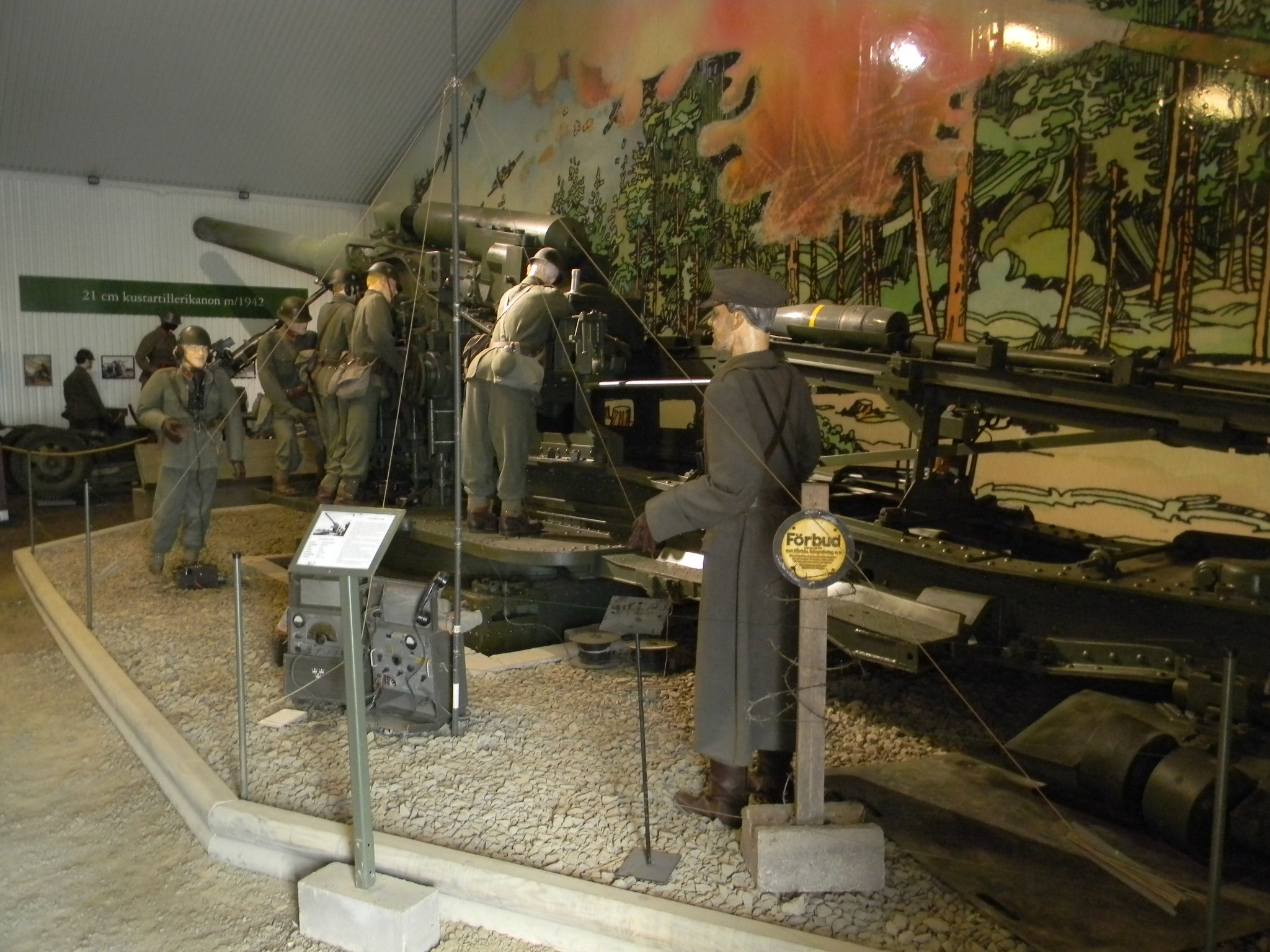 210 mm Skoda gun